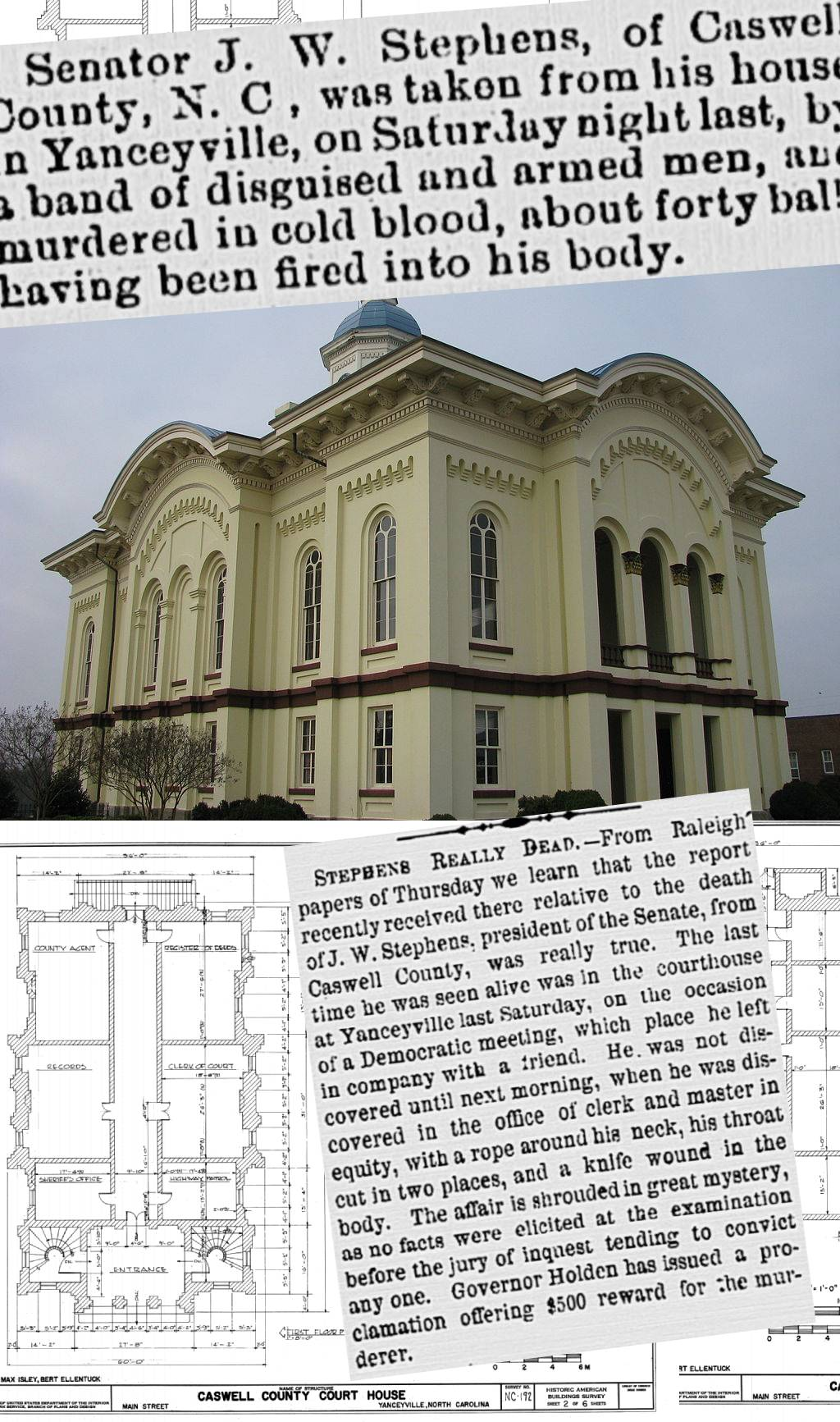 Plans, pictures and news coverage of the assassination John W. Stephens in the Yanceyville, North Carolina